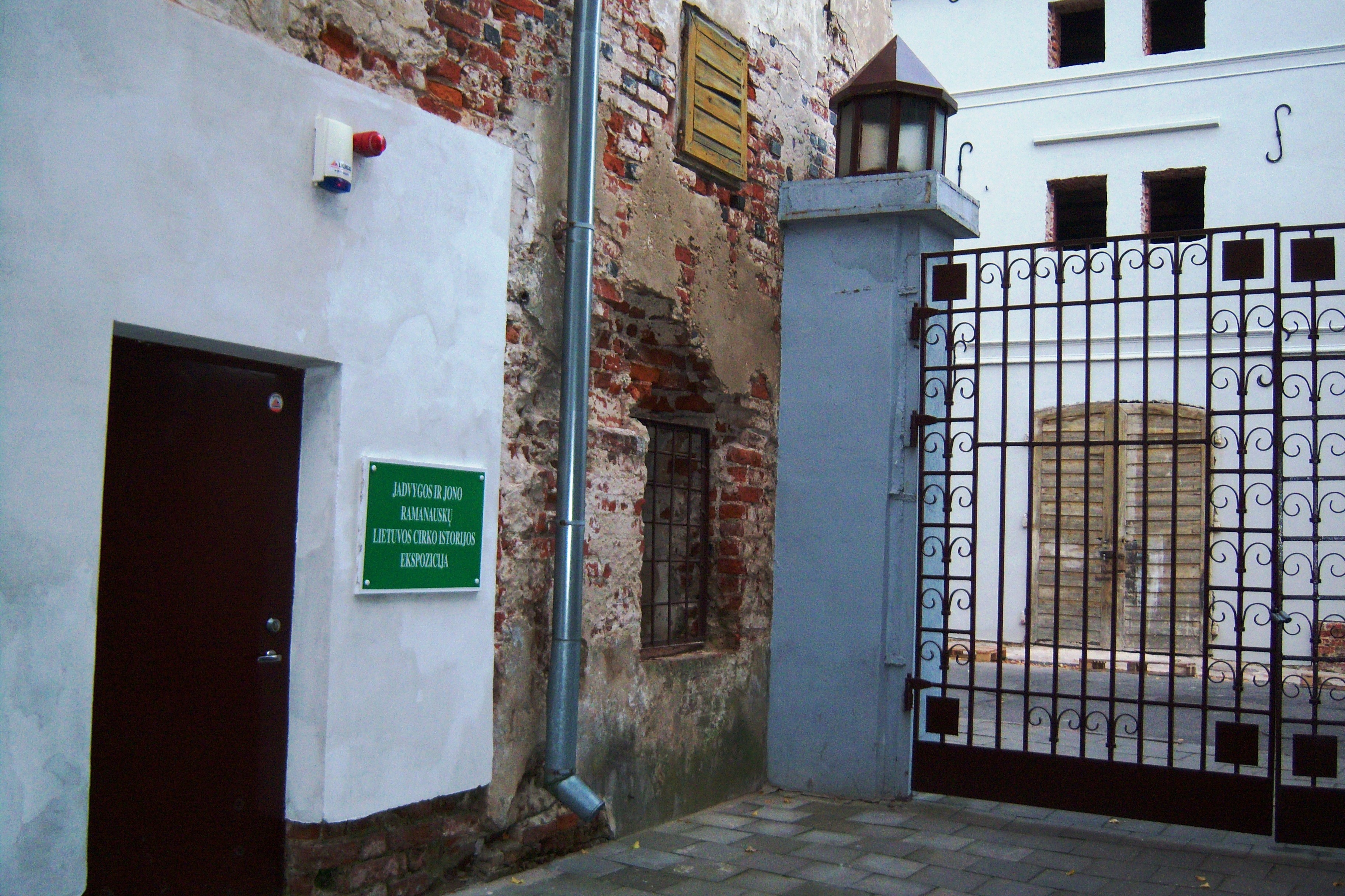 Sports Museum, entrance to circus exhibition, Kaunas, Lithuania